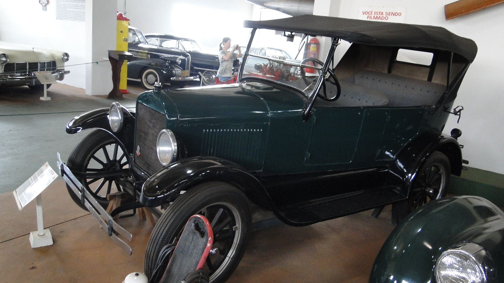 Ford Model T 1926-1927 Touring model. (Mislabeled as a 1924; the body style is that of the 1926-1927 models.)